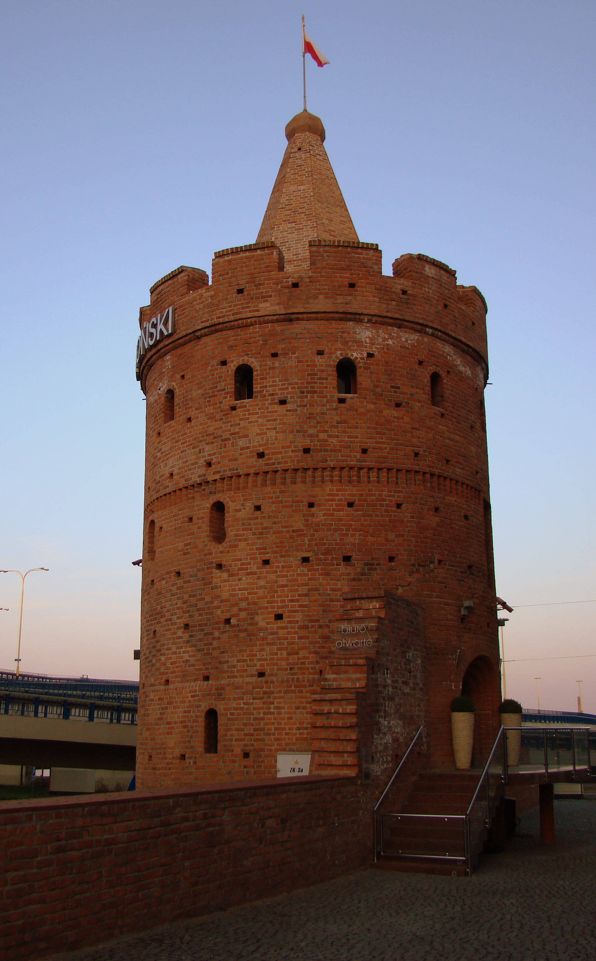 Virgin Tower Szczecin, Poland